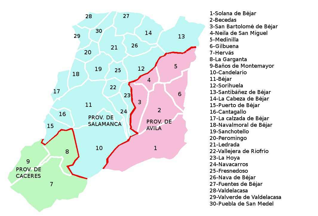 municipios de la comunidad de villa y tierra de Béjar